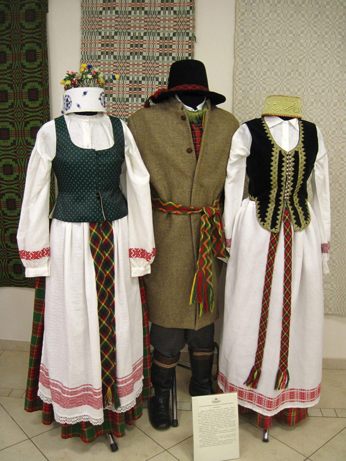 Lithuanian traditional costumes (reconstruction). Aukštaitija region. Exhibition in Kyiv.